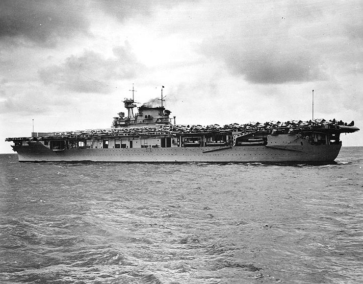 USS Enterprise (CV-6) en route to Pearl Harbor, 8 October 1939. Photographed from USS Minneapolis (CA-36).